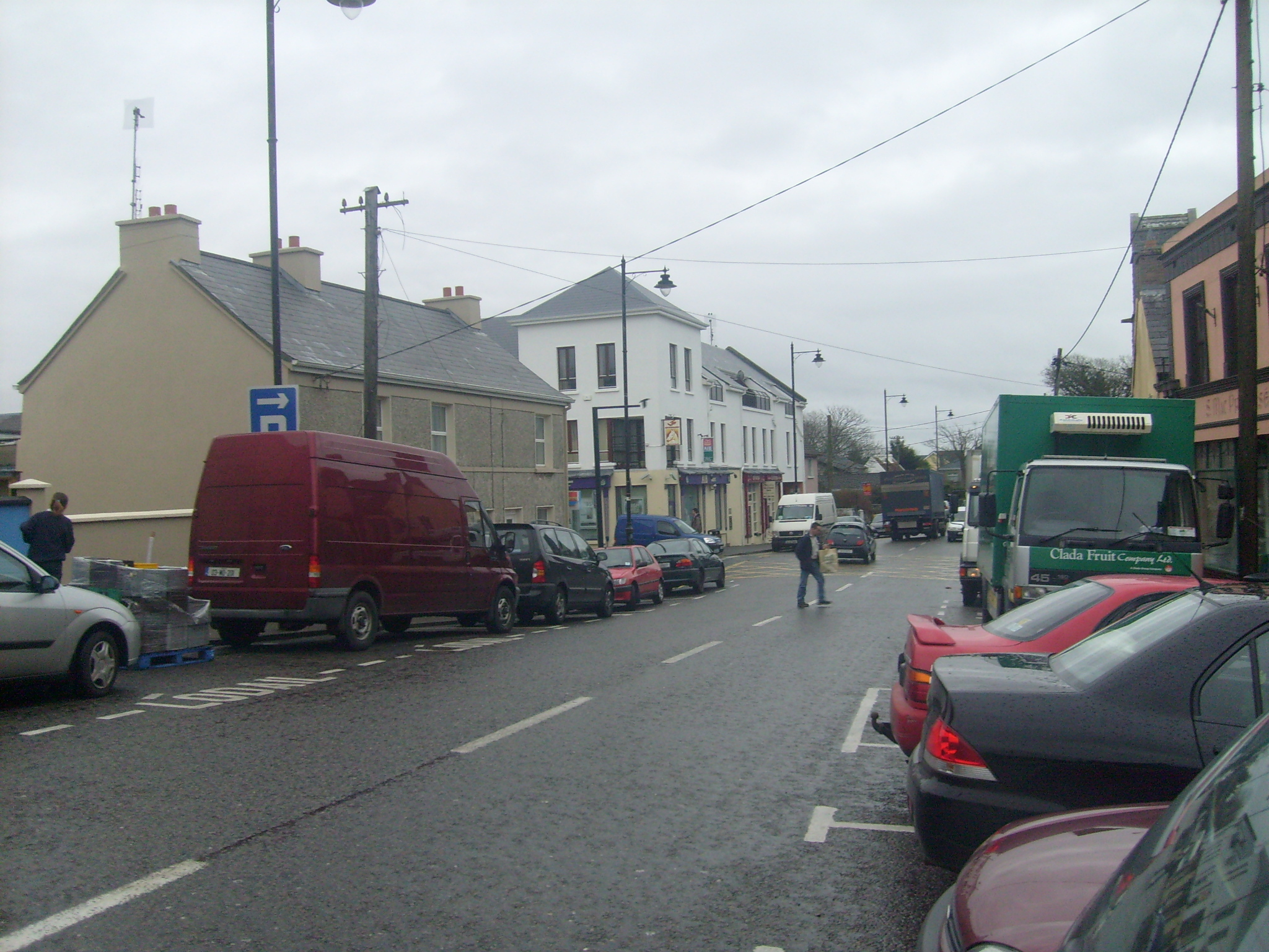 Spiddal village in County Galway, Ireland.